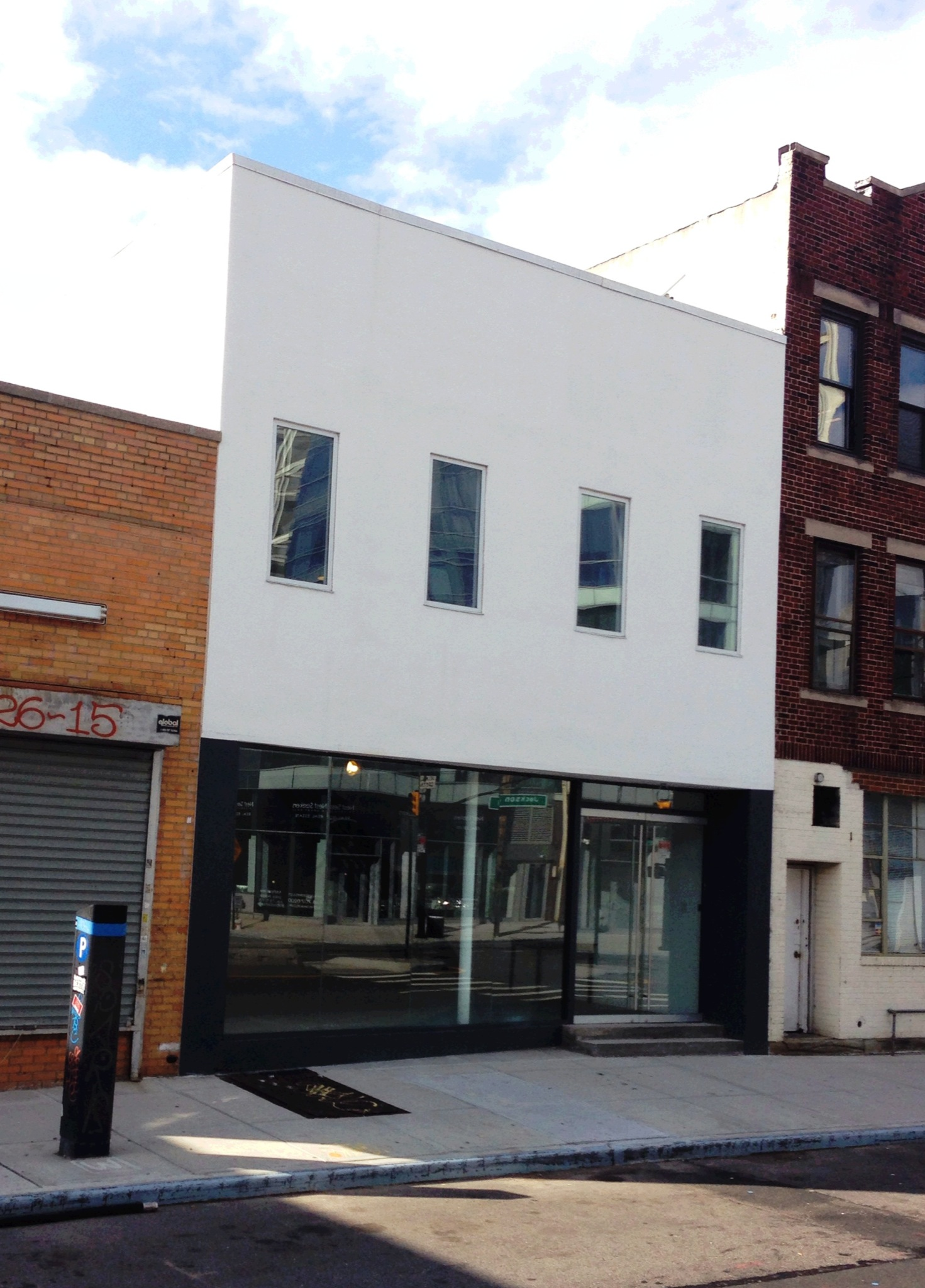 See.Me Gallery and office facade on Jackson Avenue in Long Island City, Queens.